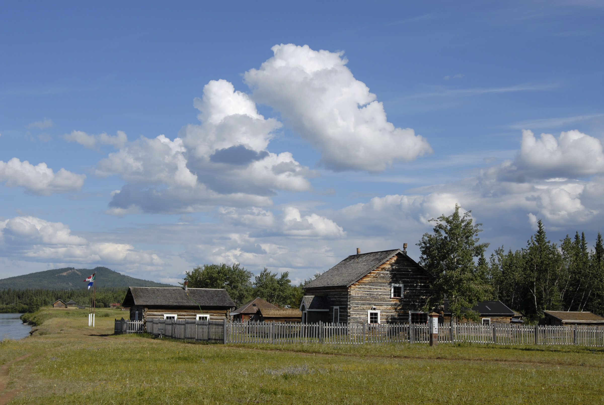 An image of some of the historic buildings at Fort Selkirk, Yukon, Canada.